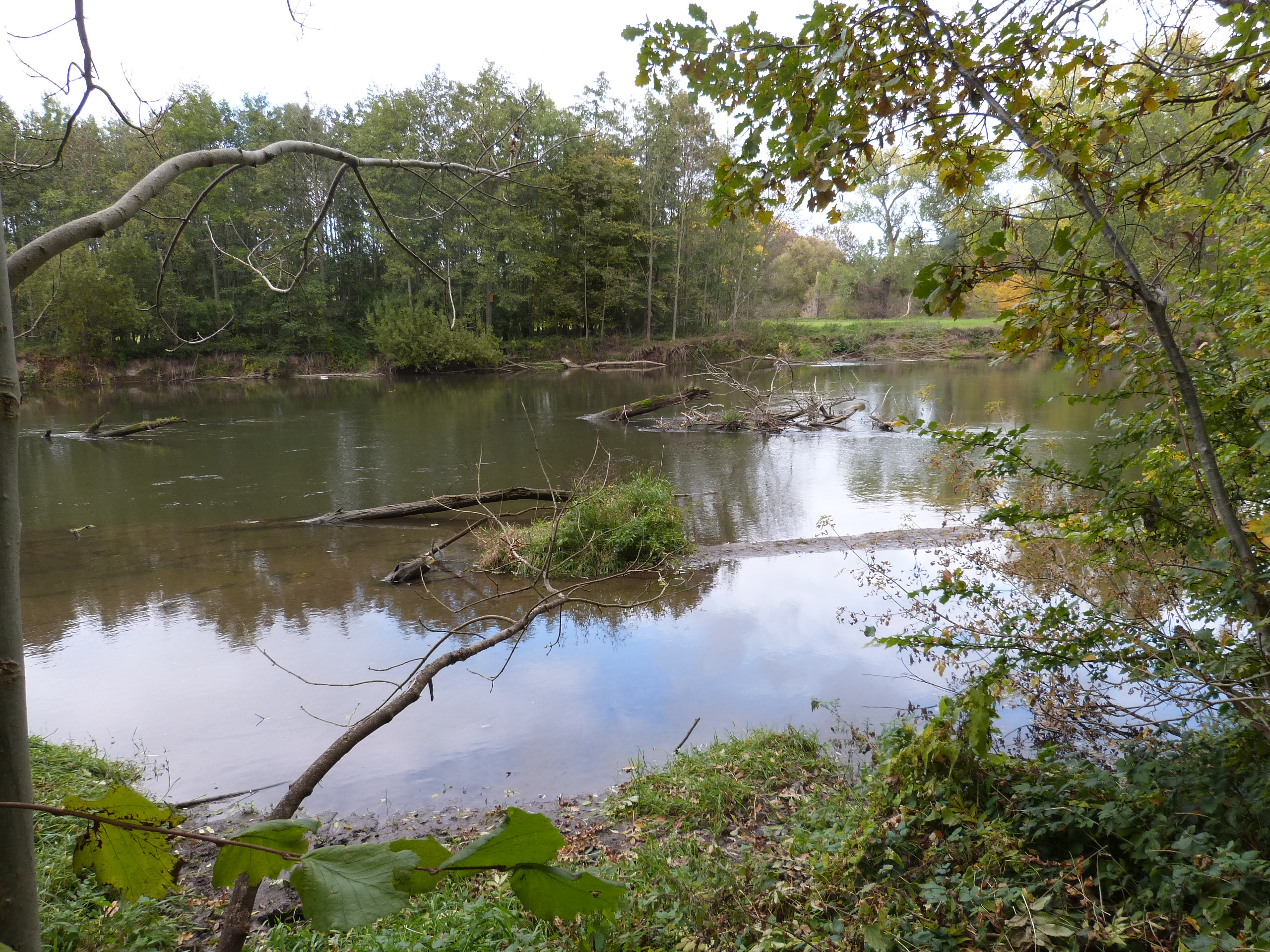 Wilde Saale, a branche of the Saale river, view from island Rabeninsel in Halle (Saale)